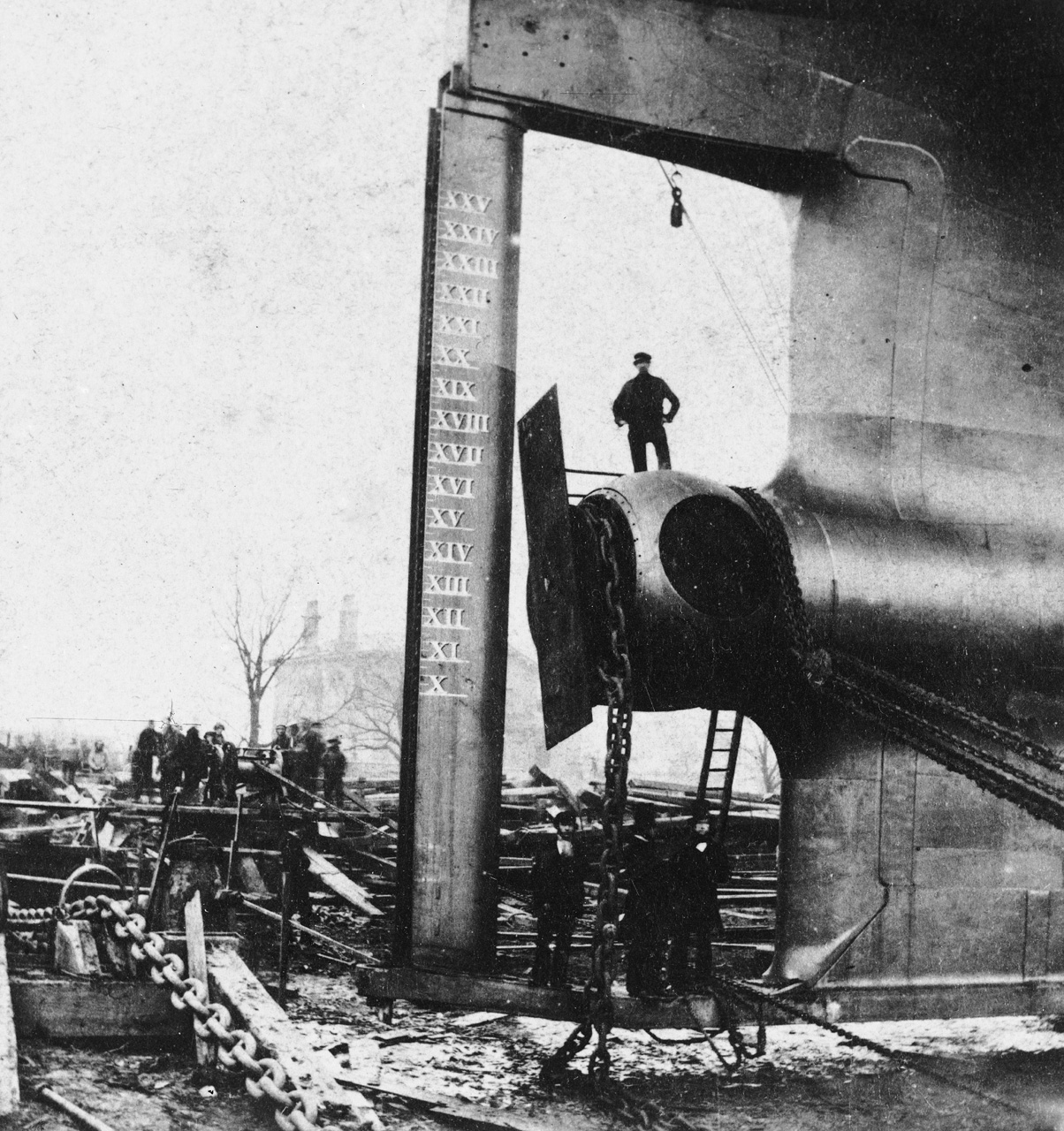 Reproduction ID: H1695 Maker: Robert Howlett Date: 1857